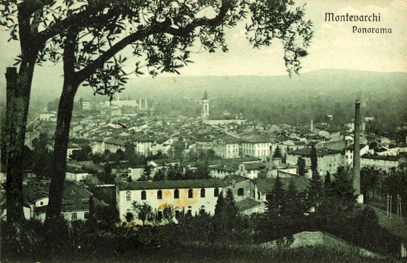 Montevarchi Skyline from La Ginestra. Postcard realized by Vestri Studio on old Vestri's pictures